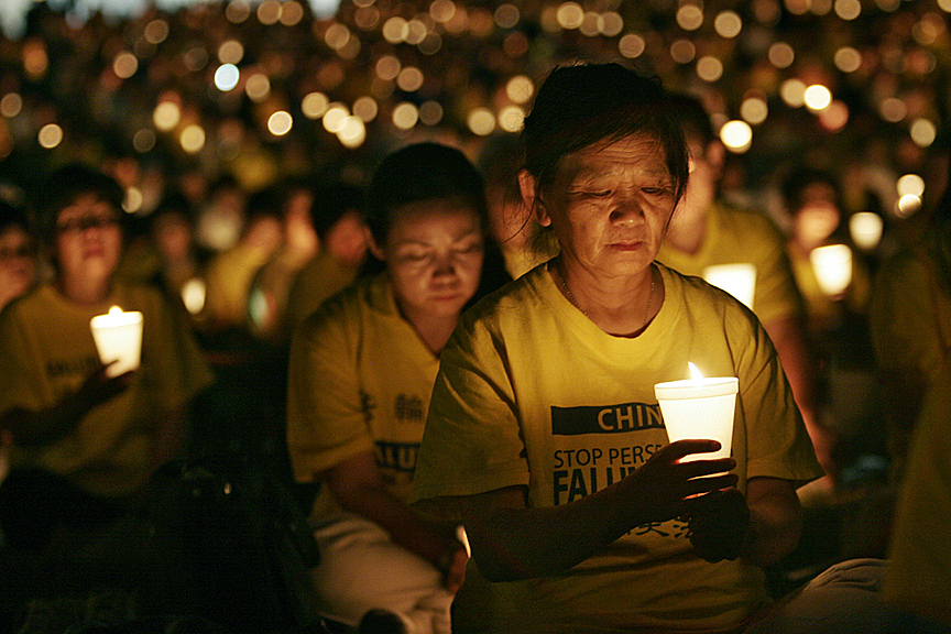 see further